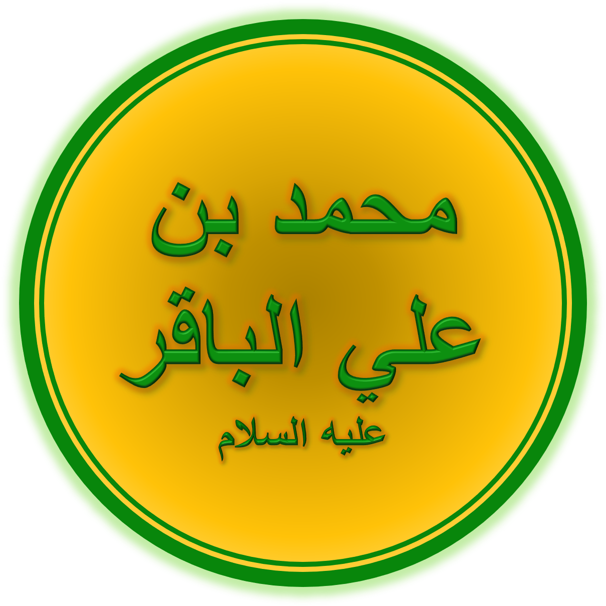 Arabic text with the name and a title of Muhammad ibn Ali al-Baqir